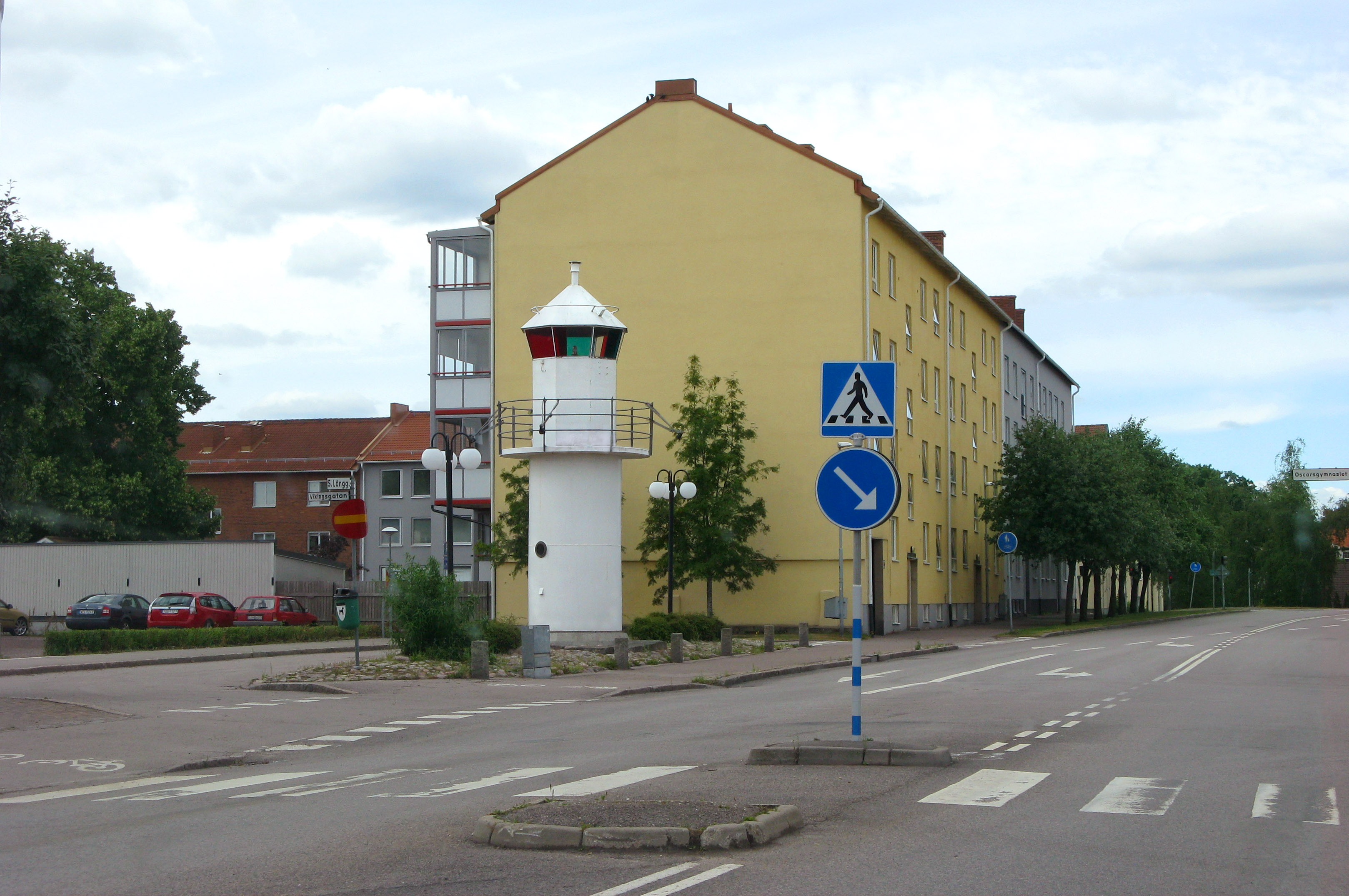 Lighthouse in Swedsh town OSkarshamn.